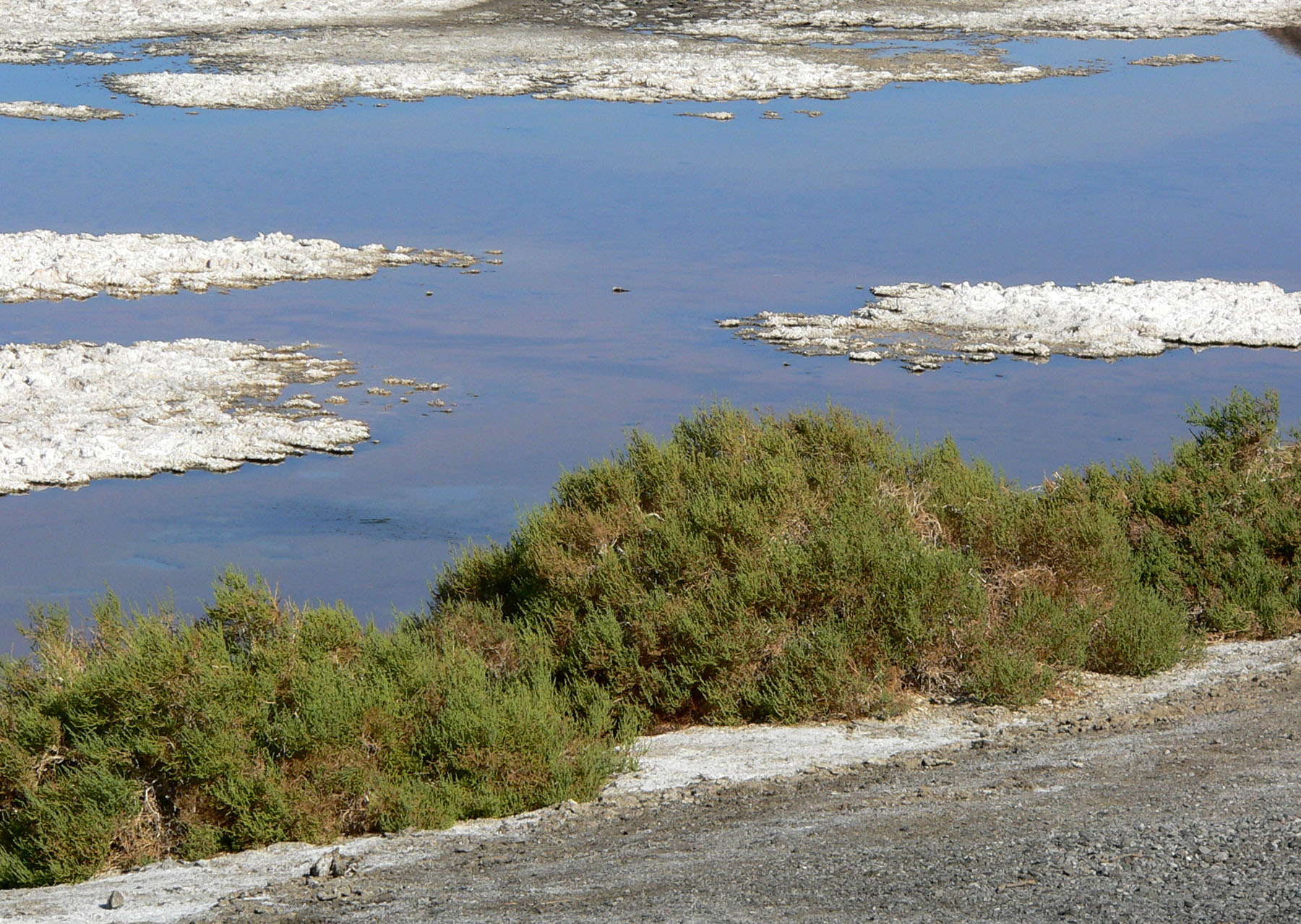 Allenrolfea_occidentalis (iodine bush) at Badwater, Death Valley